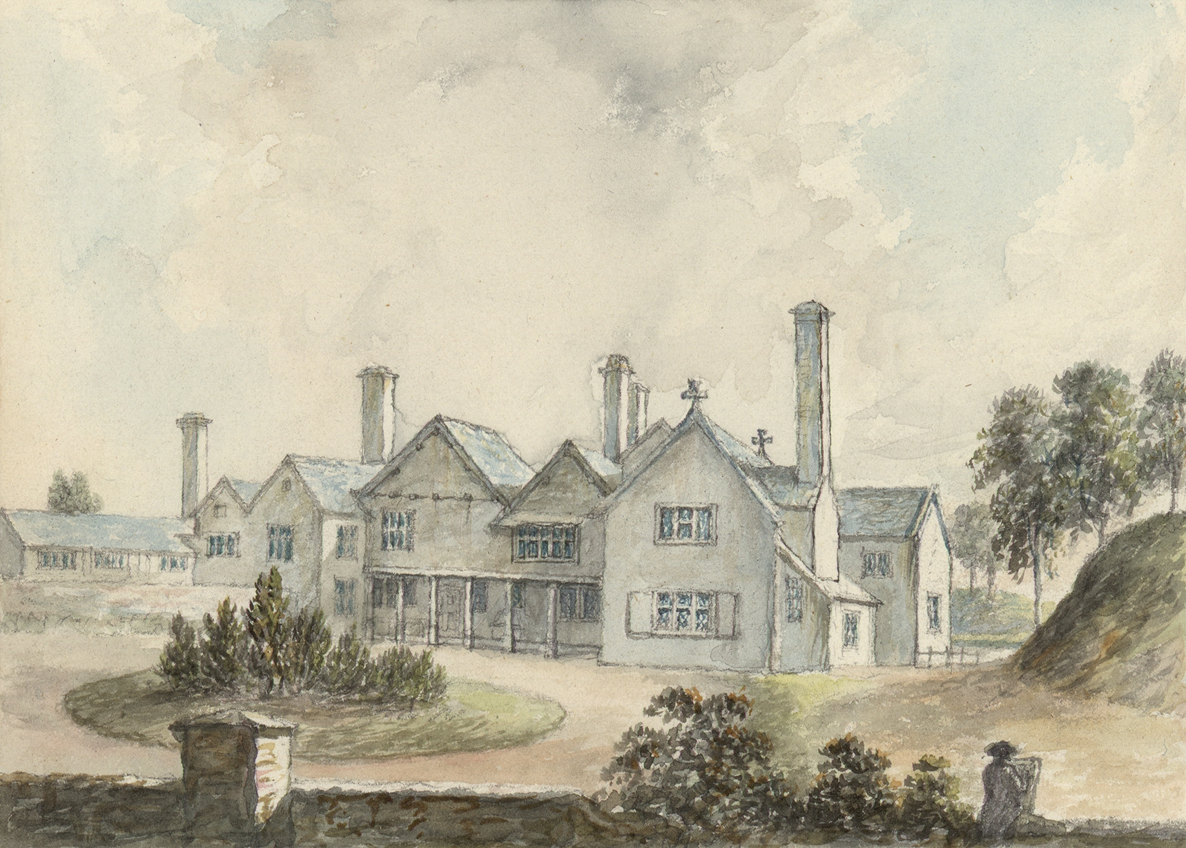 An image from a set of 8 extra-illustrated volumes of A tour in Wales by Thomas Pennant (1726-1798) that chronicle the three journeys he made through Wales between 1773 and 1776. These volumes are unique because they were compiled for Pennant's own library at Downing. This edition was produced in 1781. The volumes include a number of original drawings by Moses Griffiths, Ingleby and other well known artists of the period. Thomas Pennant (1726-1798)